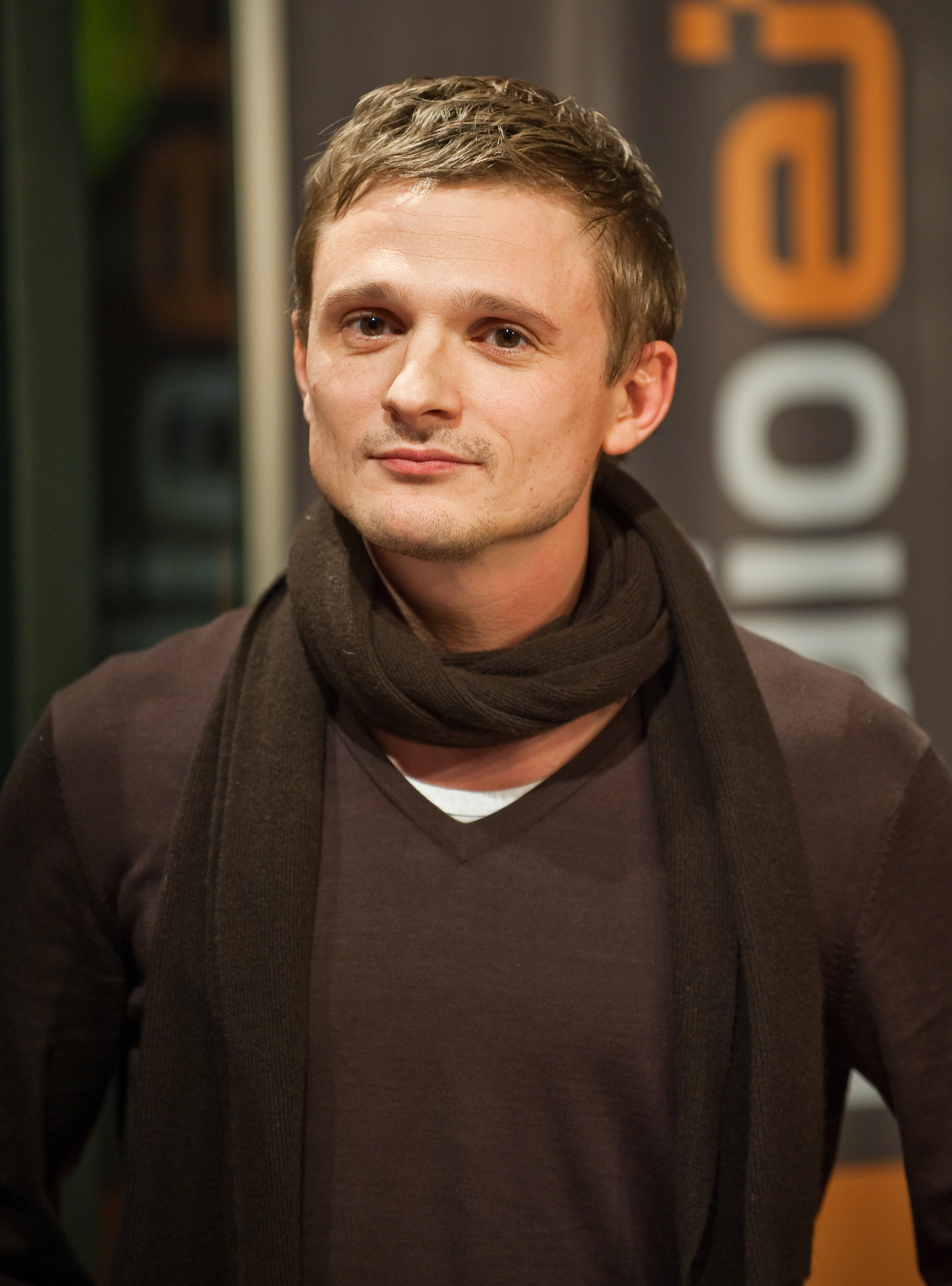 German actor Florian Lukas at the 59th Berlin International Film Festival